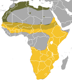 Derived from specific maps.